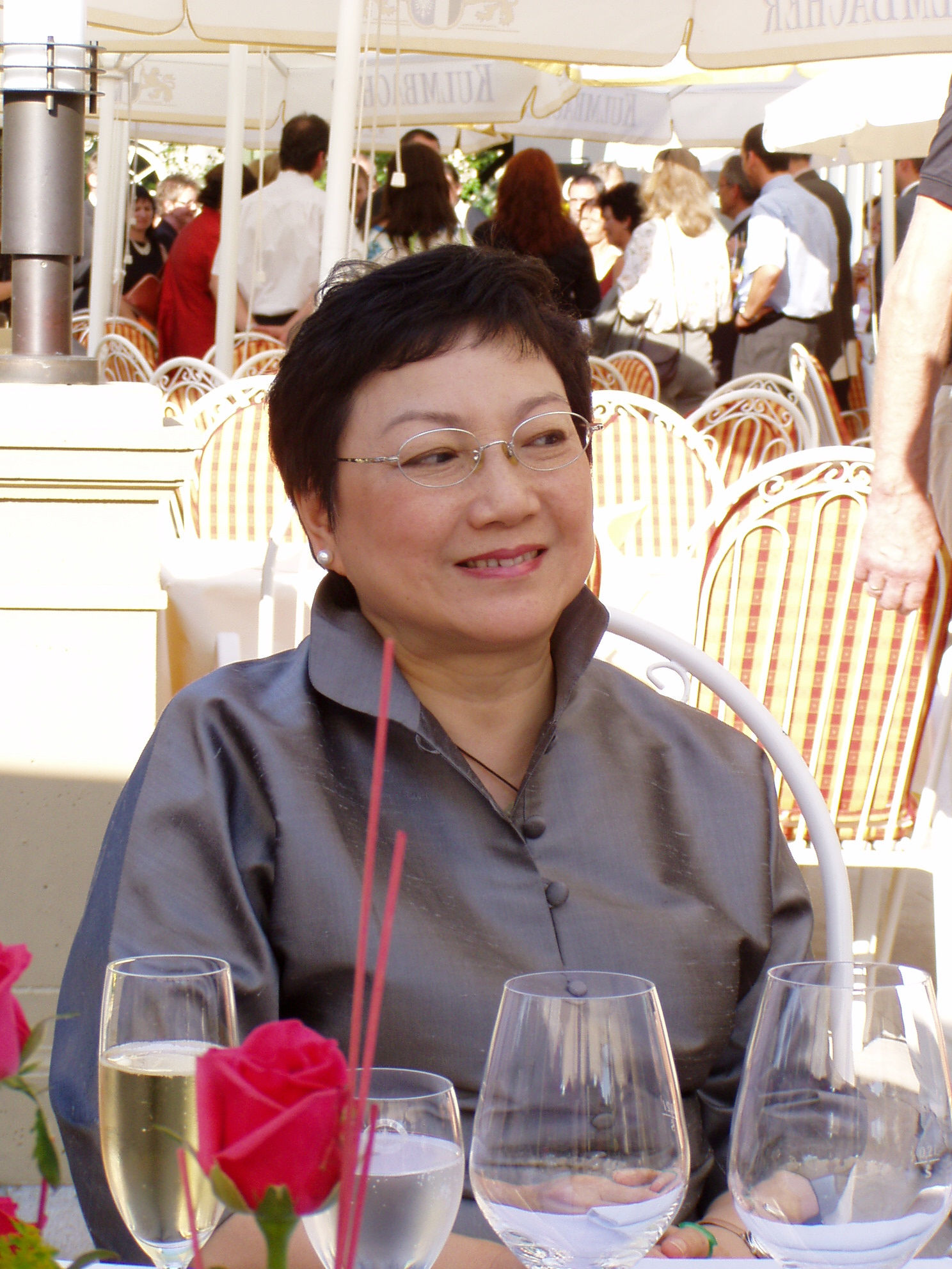 Xiao Rong, youngest daughter of Deng Xiaoping (1904-1997), former communist leader of the People's Republic of China